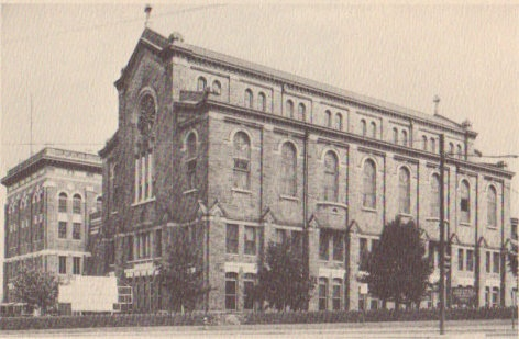 Side view of St. Mary's Industrial School after 1919 fire